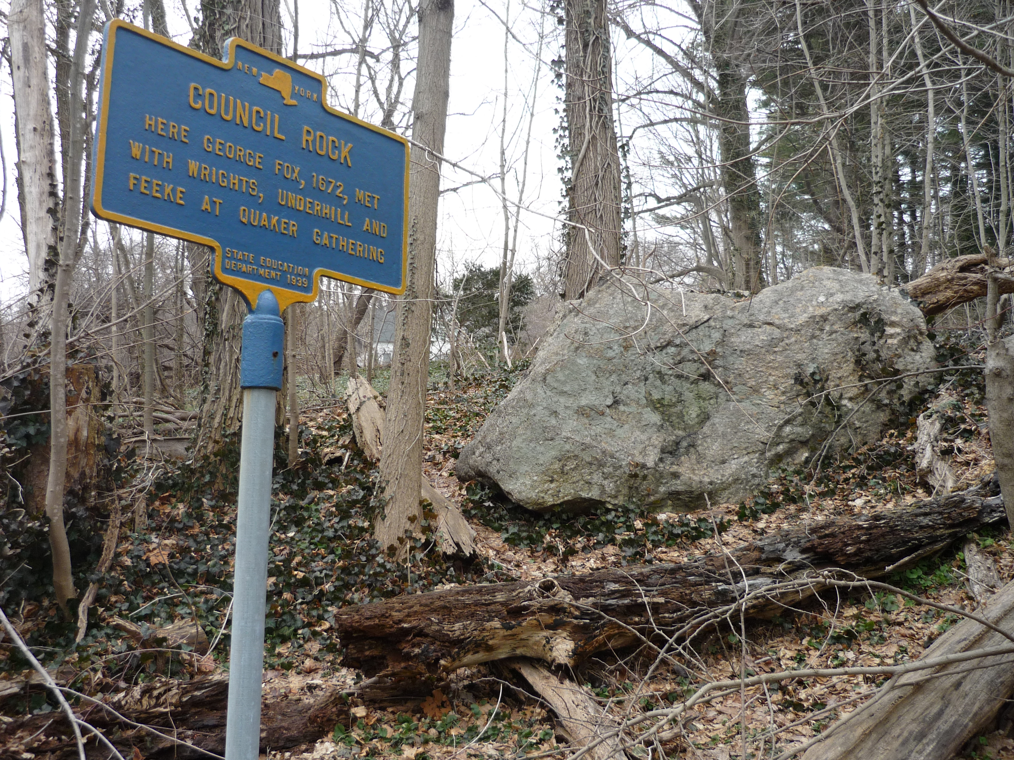 Council Rock in Oyster Bay, New York. HMDB page